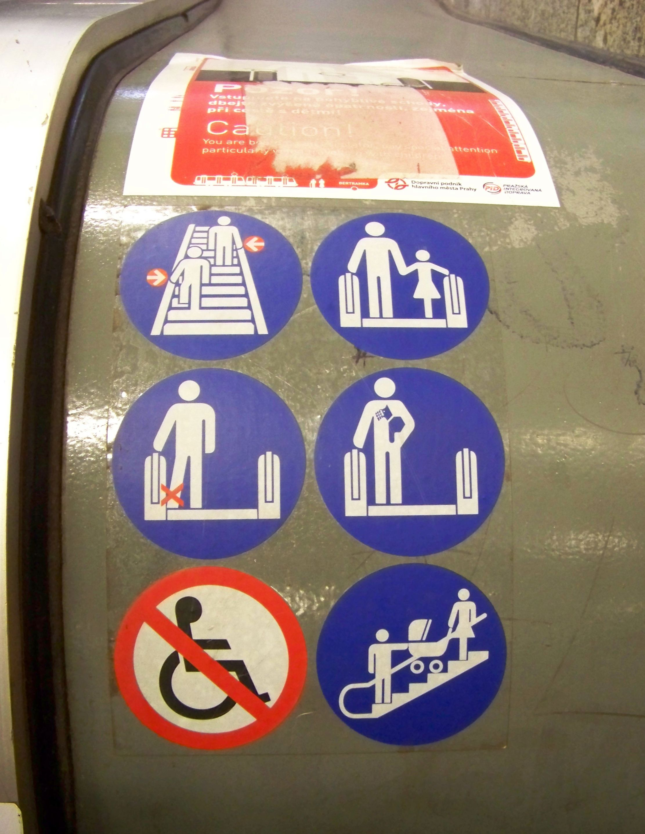 Prague-Libeň, the Czech Republic. Palmovka metro station, escalator signs in the underpass.